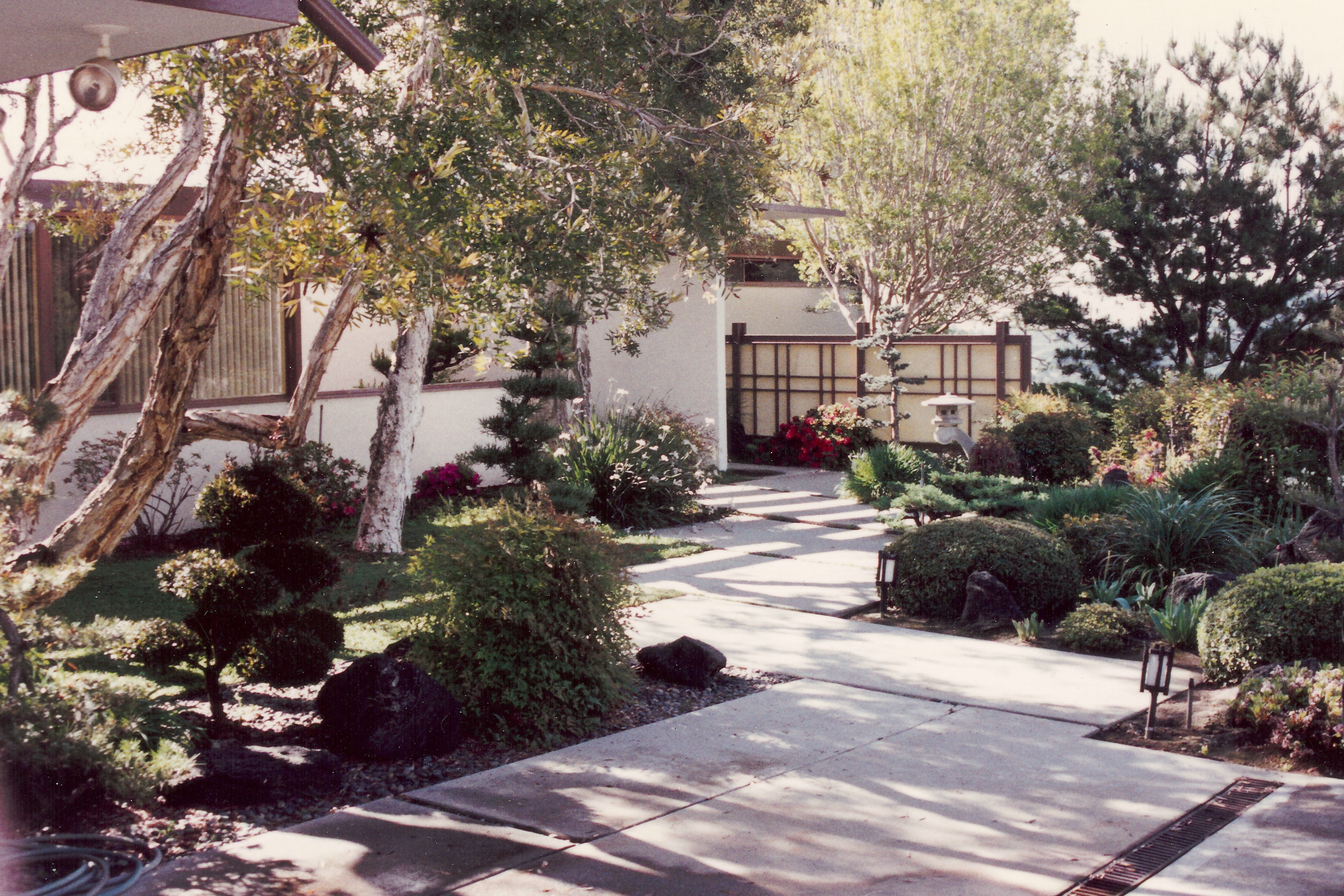 West garden and entrance to Devon House by Richard Neutra (built 1957) — in Pasadena, California.